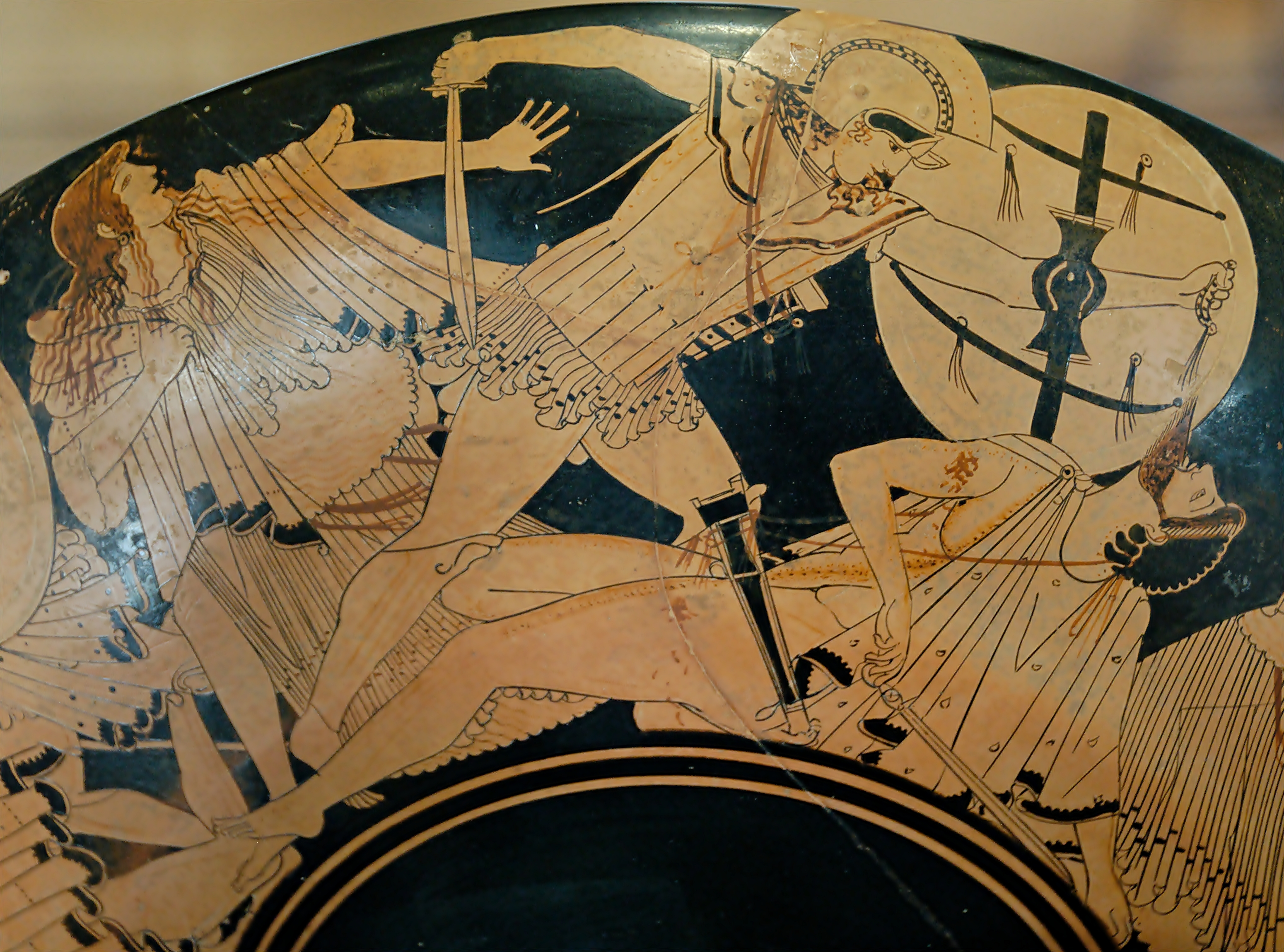 Iloupersis (the fall of Troy), detail. Side A from an Attic red-figure kylix, ca. 490 BC. From Vulci.